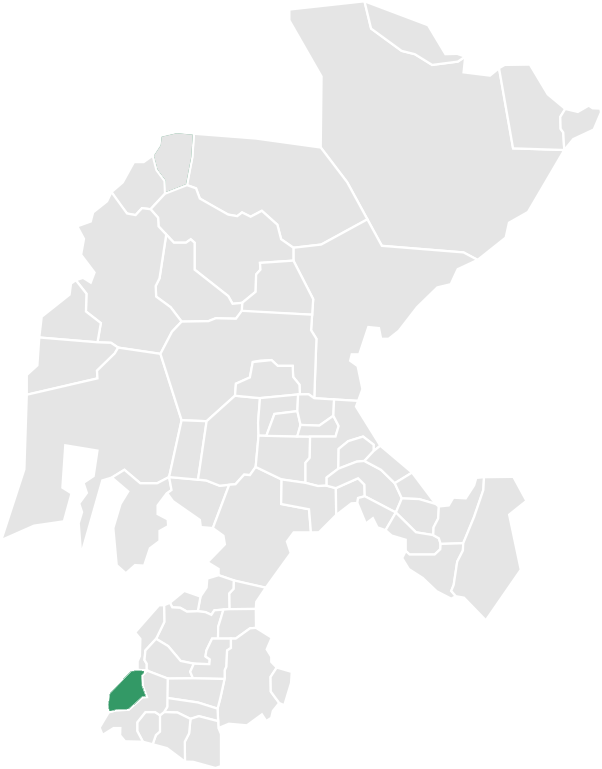 Map of the Municipality of Benito Juárez in Zacatecas, México.